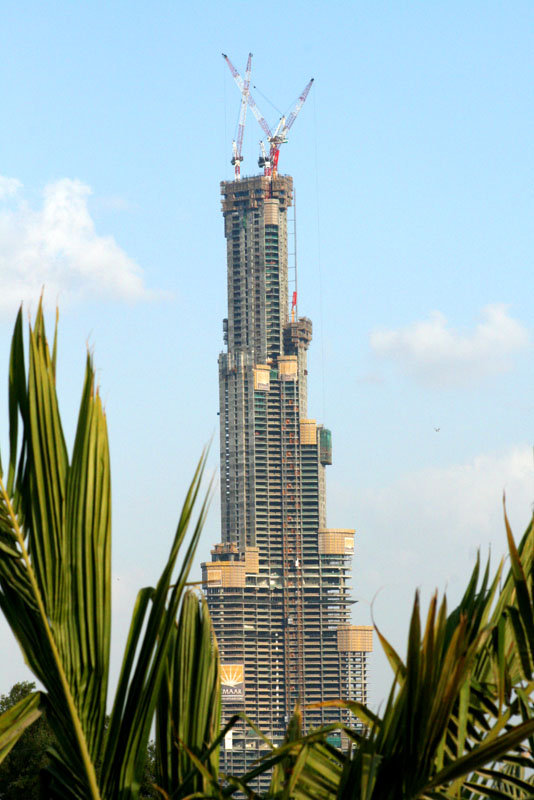 Burj Khalifa as viewed from a residential villa, January 2, 2007